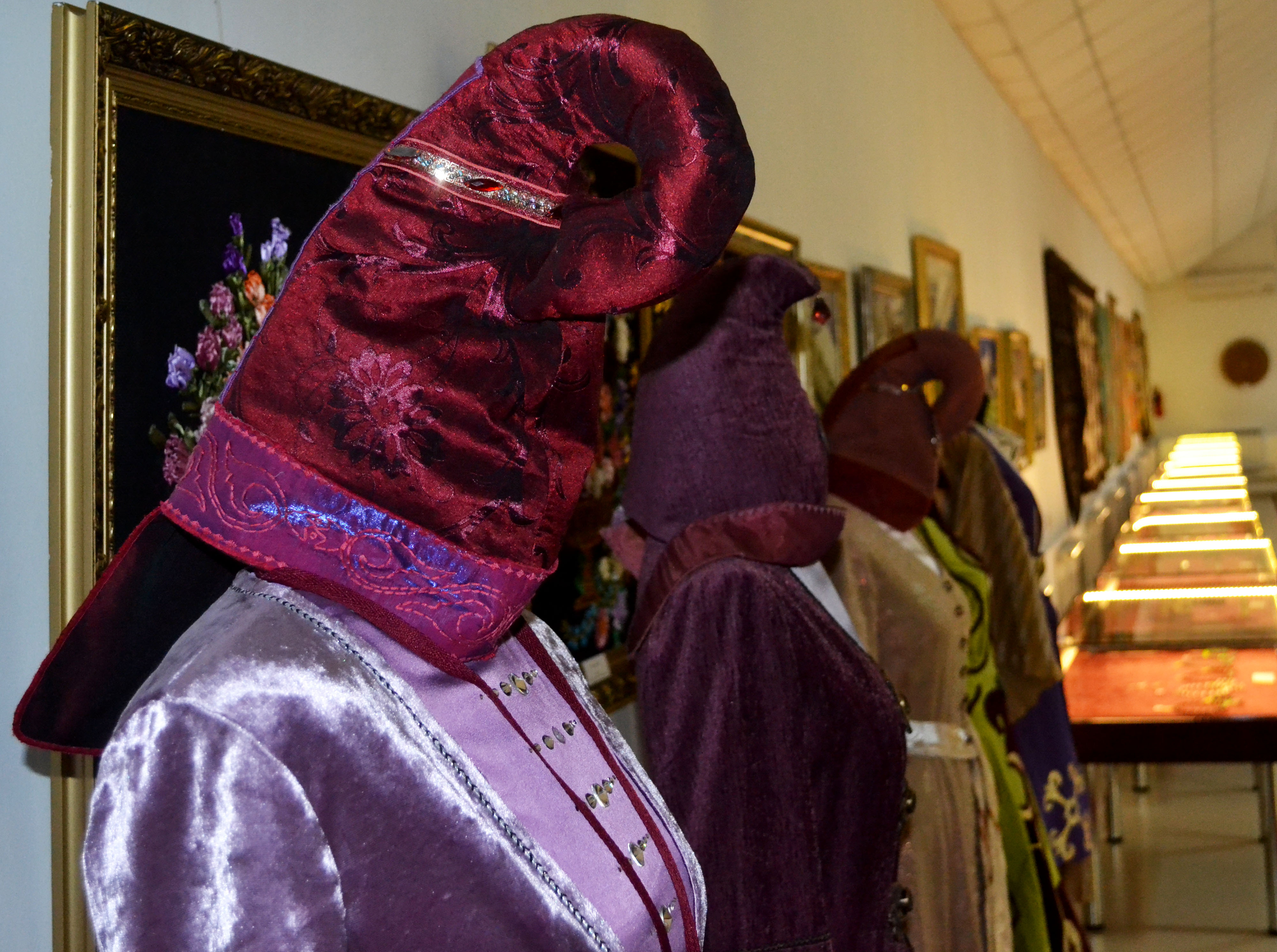 Original ancient Ingush national female headdress - kurhars